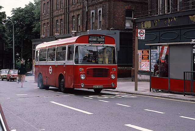 C11 at Finchley Road Station, near to Hampstead, Camden, Great Britain. Bristol LH BS5 collects passengers from the stop beside Finchley Road Station in Canfield Gardens. This stop was the terminus for the 268 until the O2 centre opened.